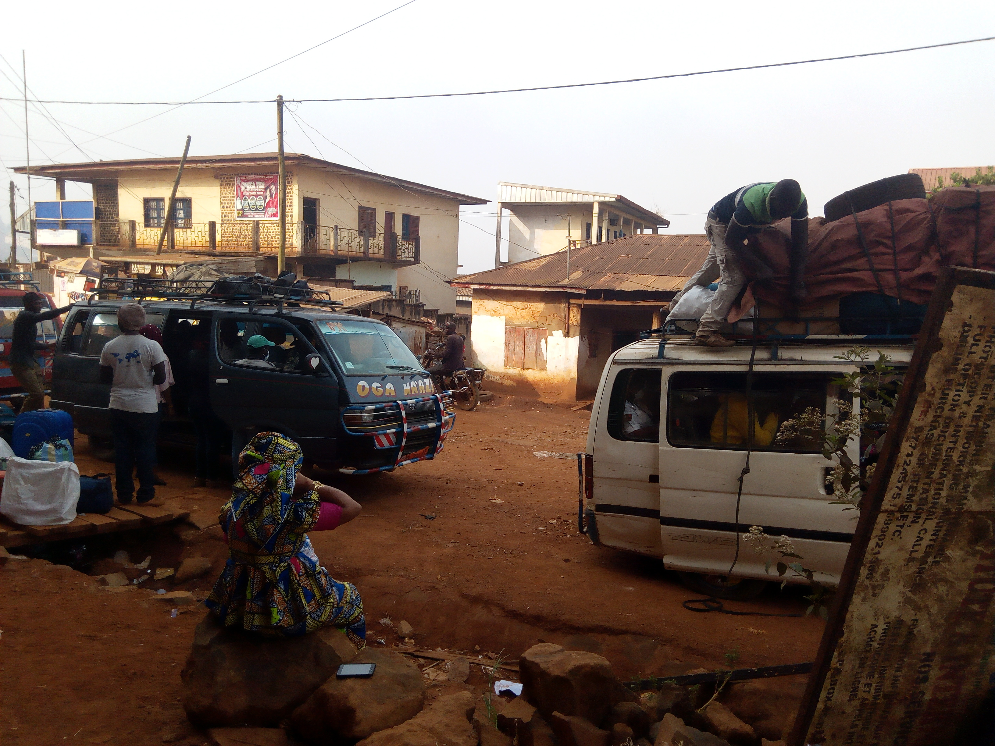 loading vehicles to the NW region This is an image with the theme "Africa on the Move or Transport" from: Cameroon